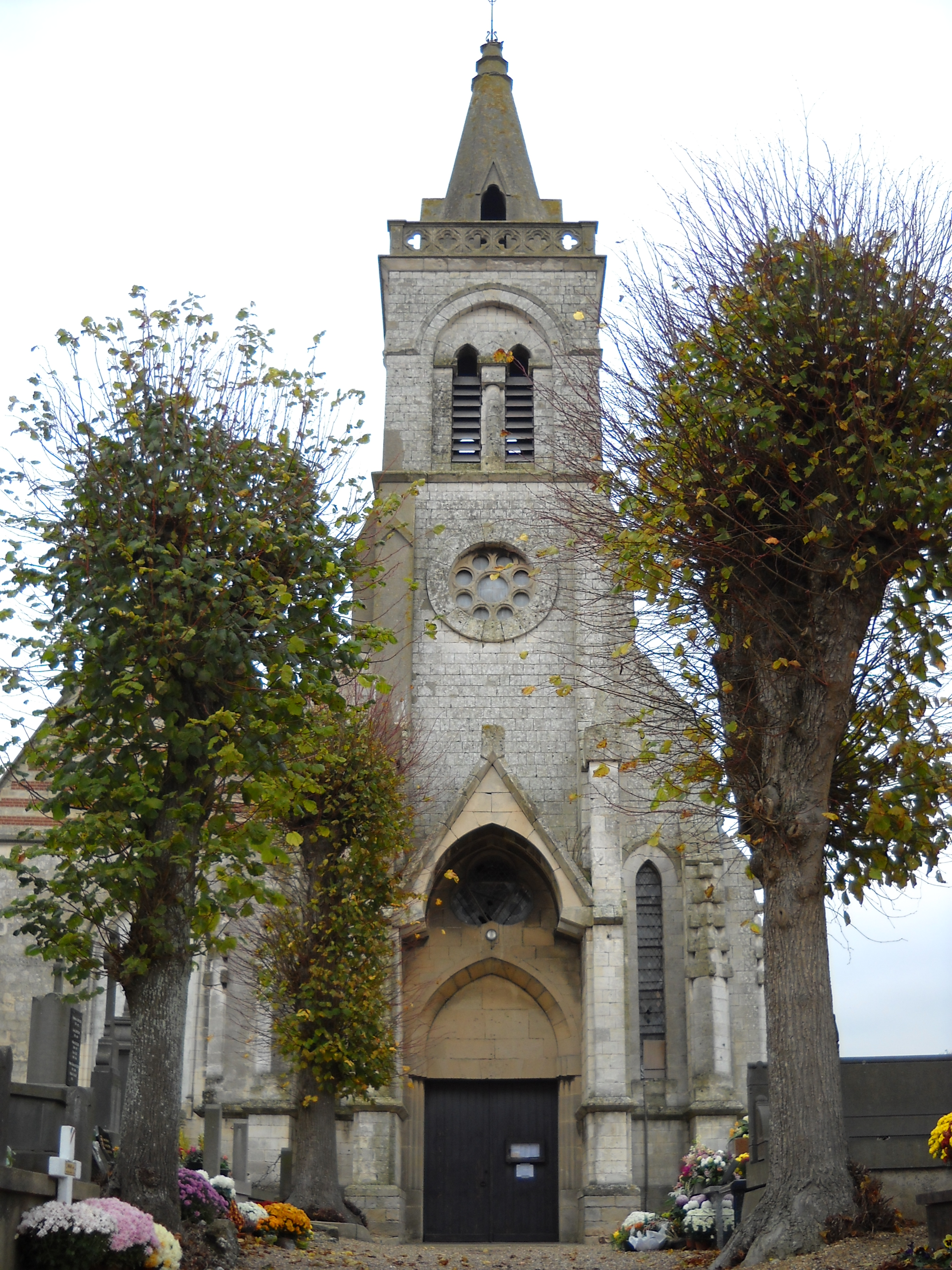 St.Quentin's church, in Aire-sur-la-Lys, Pas-de-Calais, France.